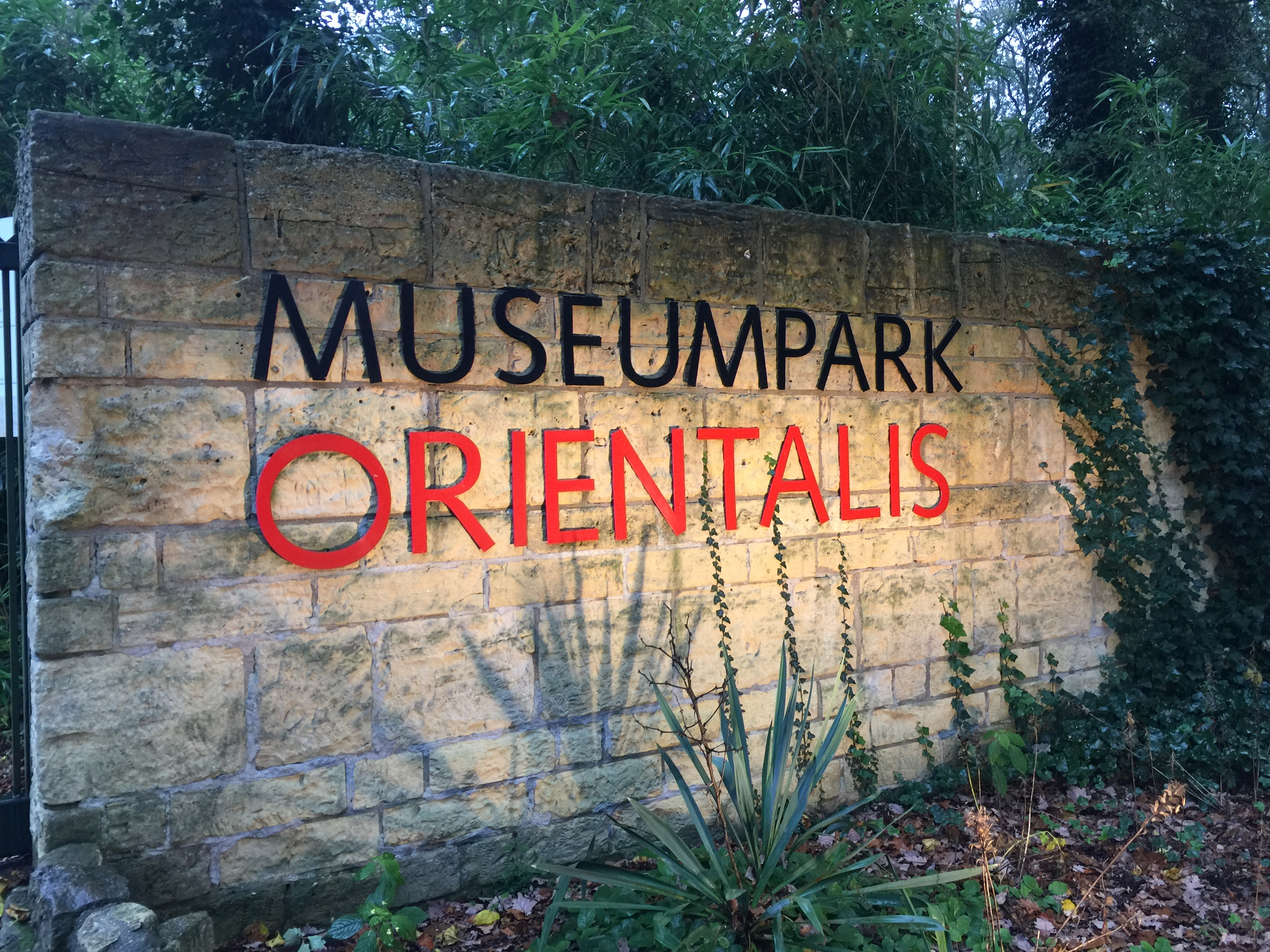 Entrance of Museumpark Orientalis / Heilig Land Stichting